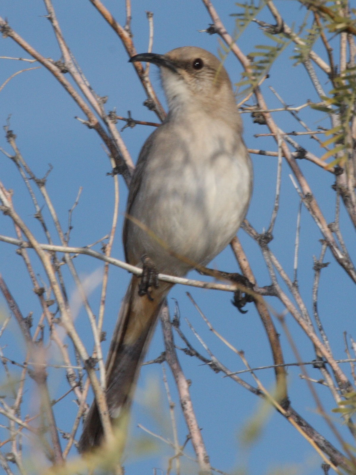 Le Conte's Thrasher (Toxostoma lecontei)